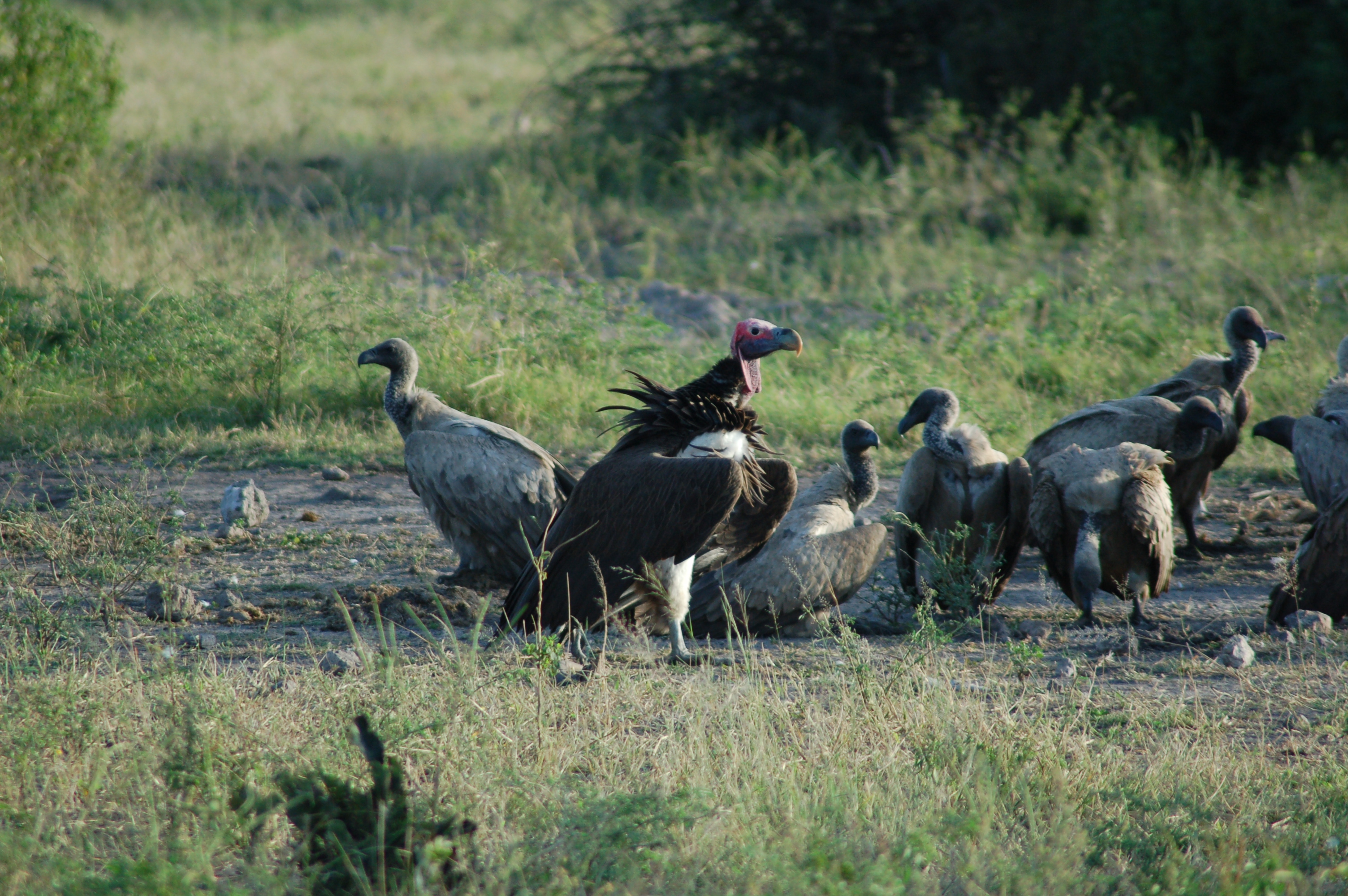 Several White-backed Vultures Gyps africanus and one Lappet-faced Vulture Torgos tracheliotus at Chobe River front, Botswana.